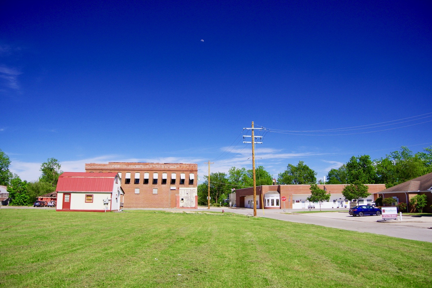 Buildings at the intersection of Main Street and 1st Street in Gideon, Missouri, United States